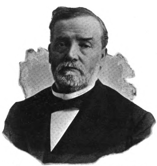 Henry Benton Sayler, Indiana Congressman